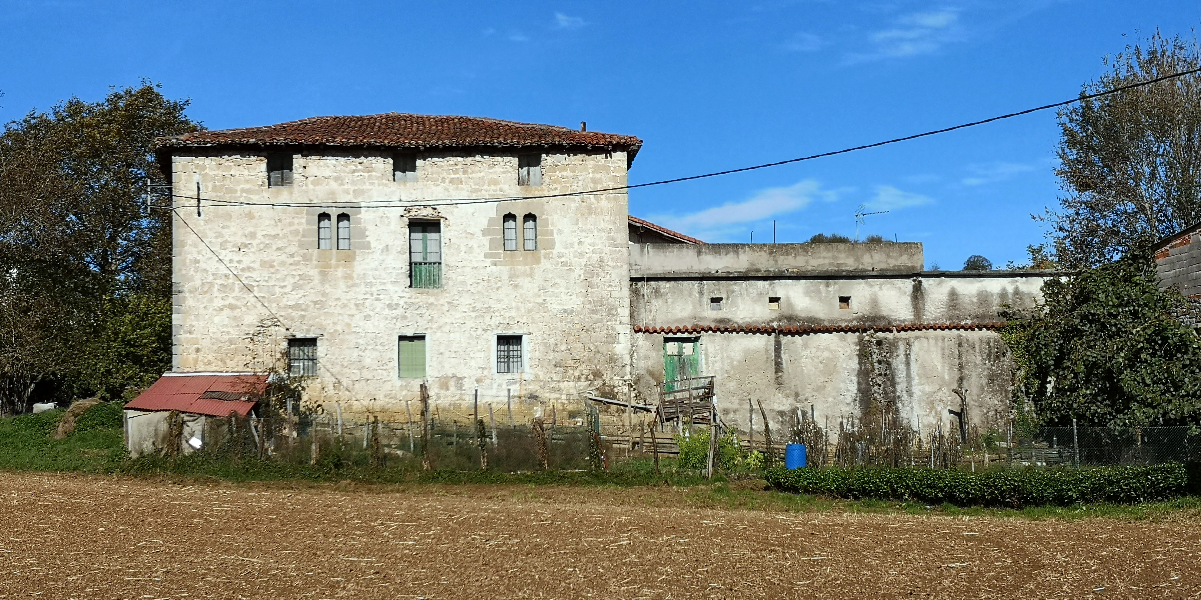 oznor